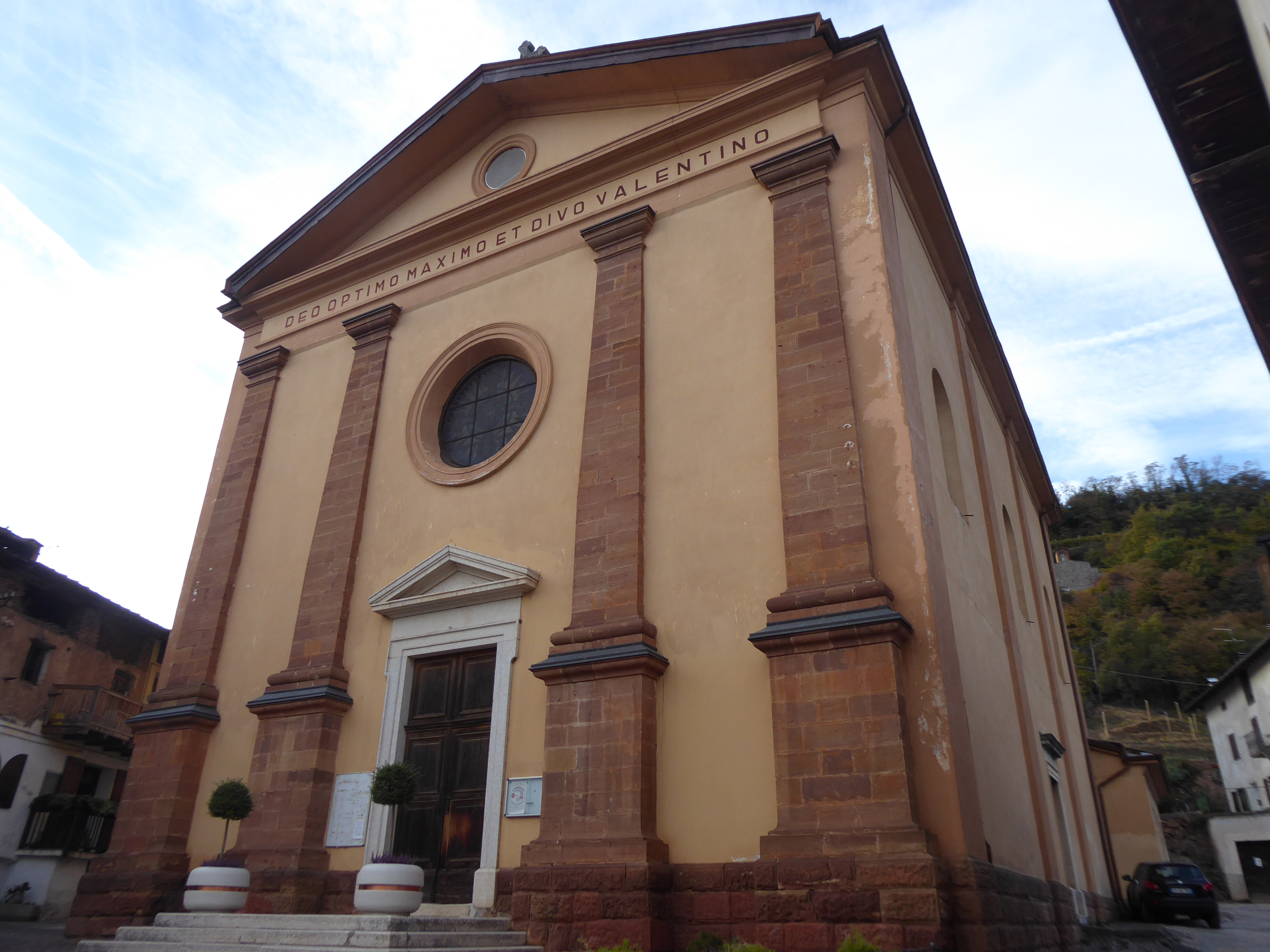 Saint Valentine church in Palù di Giovo (Giovo, Trentino, Italy)